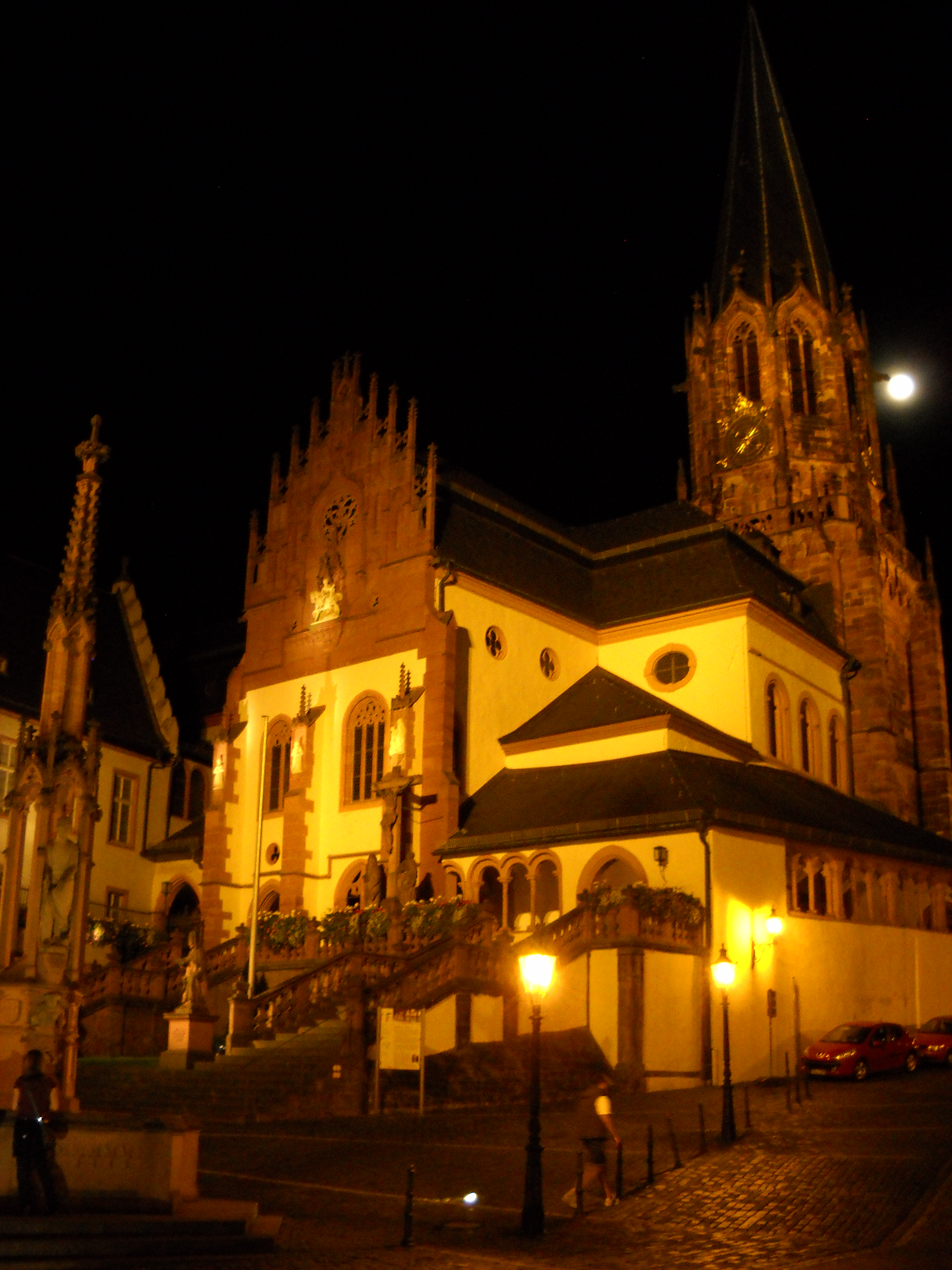 Stiftsbasilika in Aschaffenburg at night